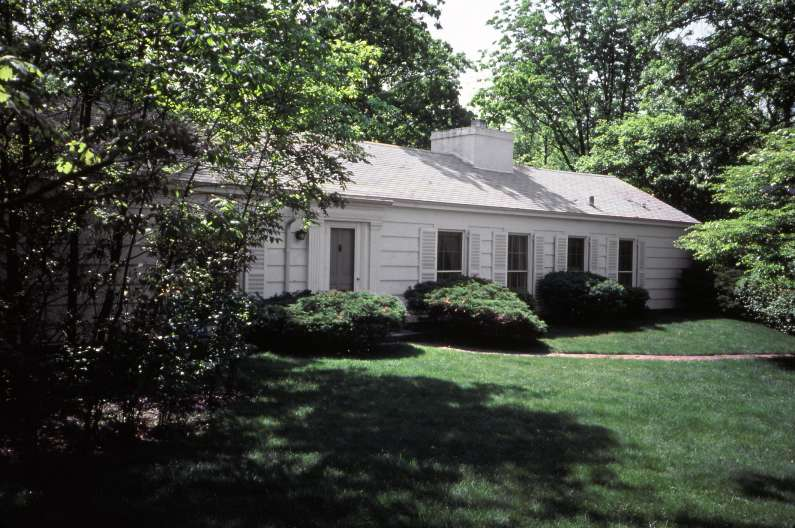 The Mahler house, ca.1943, 90 Ridge Road. Highland Park, IL (demolished)